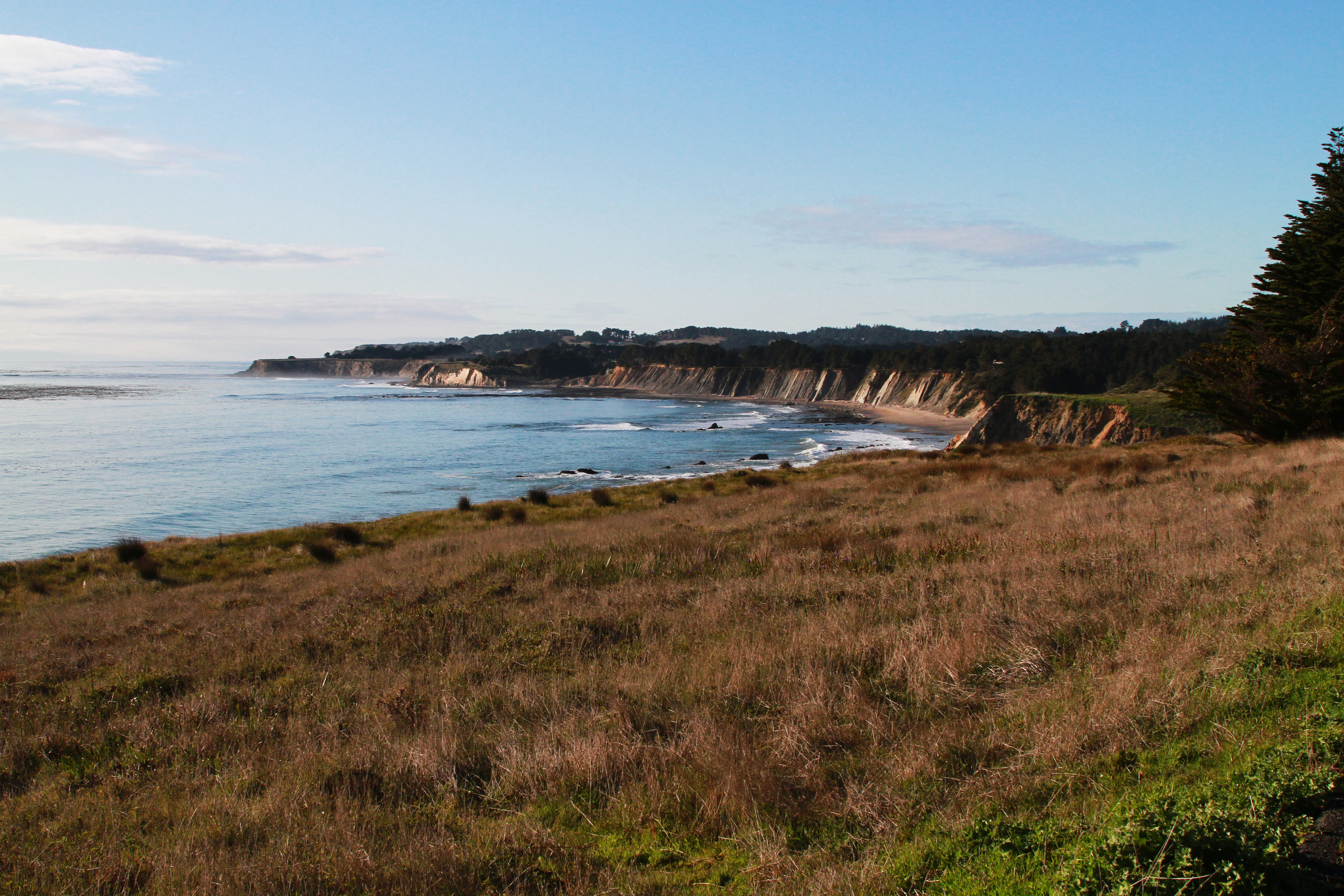 Located at Schooner Gulch State Beach along the Mendocino coast in California is Bowling Ball Beach. An interesting geologic phenomena can be observed during low tides. Hard mineral deposits form 4' to 5' in diameter 'bowling balls.' Wave action over millions of years has worn away the softer material where the mineral deposits originally formed.